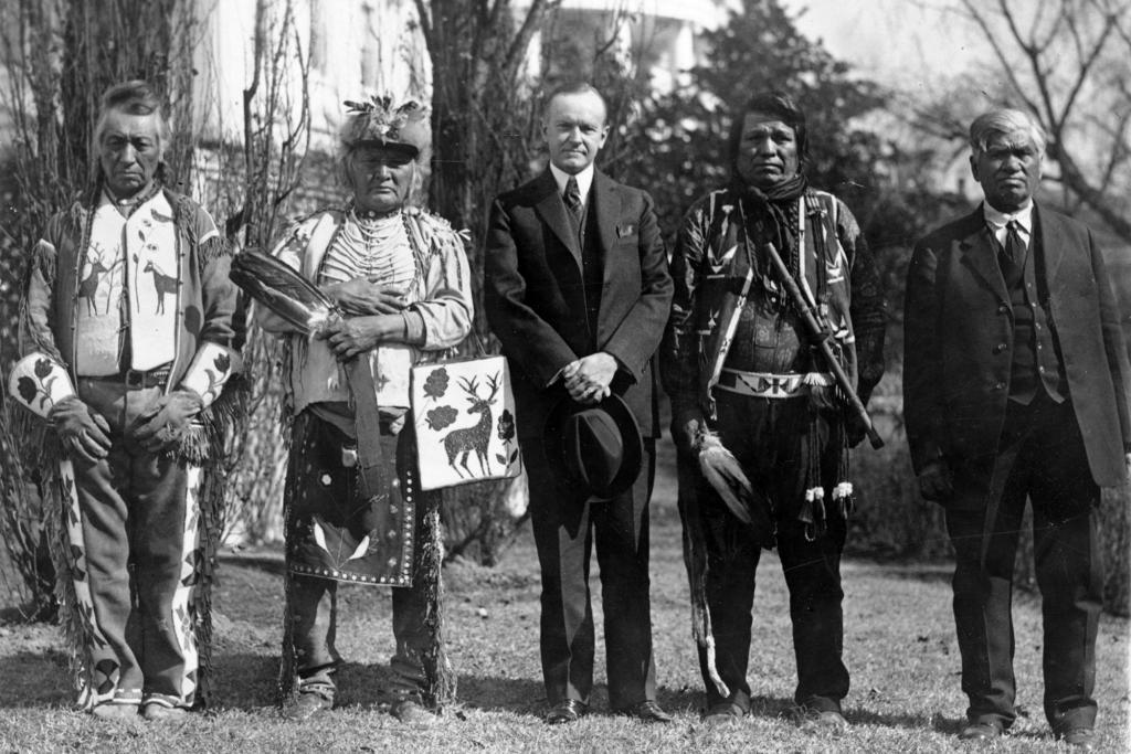 TITLE: Osage Indians CALL NUMBER: LOT 12283, v. 2 [P&P] Check for an online group record (may link to related items) REPRODUCTION NUMBER: LC-USZ62-111409 (b&w film copy neg.) No known restrictions on publication. SUMMARY: President Calvin Coolidge posed, full-length portrait, standing, facing front, with four Osage Indians; White House in the background. MEDIUM: 1 photographic print. CREATED/PUBLISHED: [1925] NOTES: National Photo Company Collection. Item in album: v. 2, p. 41, no. 34318. SUBJECTS: Coolidge, Calvin, 1872-1933. Indians of North America--Clothing & dress--Washington (D.C.)--1920-1930. Osage Indians--Clothing & dress--1920-1930. FORMAT: Portrait photographs 1920-1930. Group portraits 1920-1930. Photographic prints 1920-1930. DIGITAL ID: (b&w film copy neg.) cph 3c11409 CARD #: 94508991